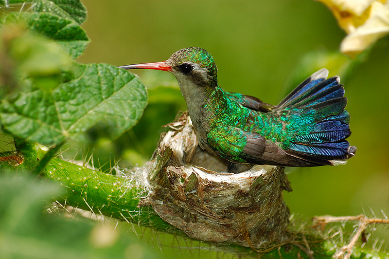 Glittering-bellied Emerald (Chlorostilbon lucidus; often incorrectly C. aureoventris - see Pacheco & Whitney, 2006, in Bull BOU 126(3)) from Brazil. Female on nest.